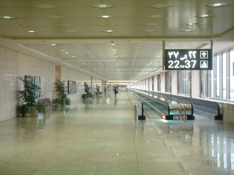 A concourse at Dammam King Fahed International Airport, Saudi Arabia